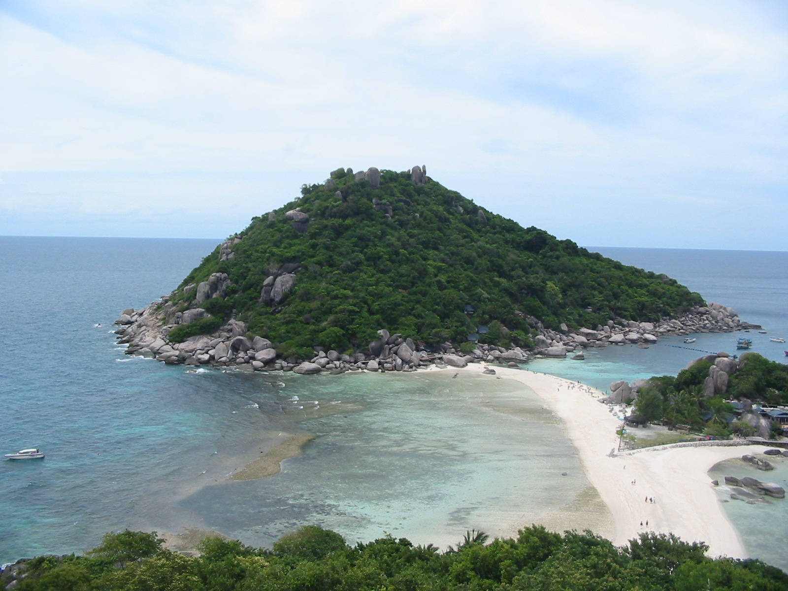 island.